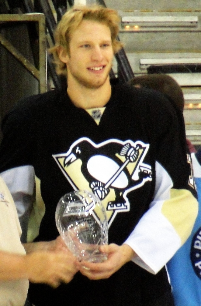 Jordan Staal receives the Pittsburgh Penguins "Player's Player Award", as voted on by his teammates, April 3, 2010 before a game against the Atlanta Thrashers at Mellon Arena in Pittsburgh, PA.